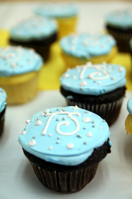 Blue cupcakes for graduation.